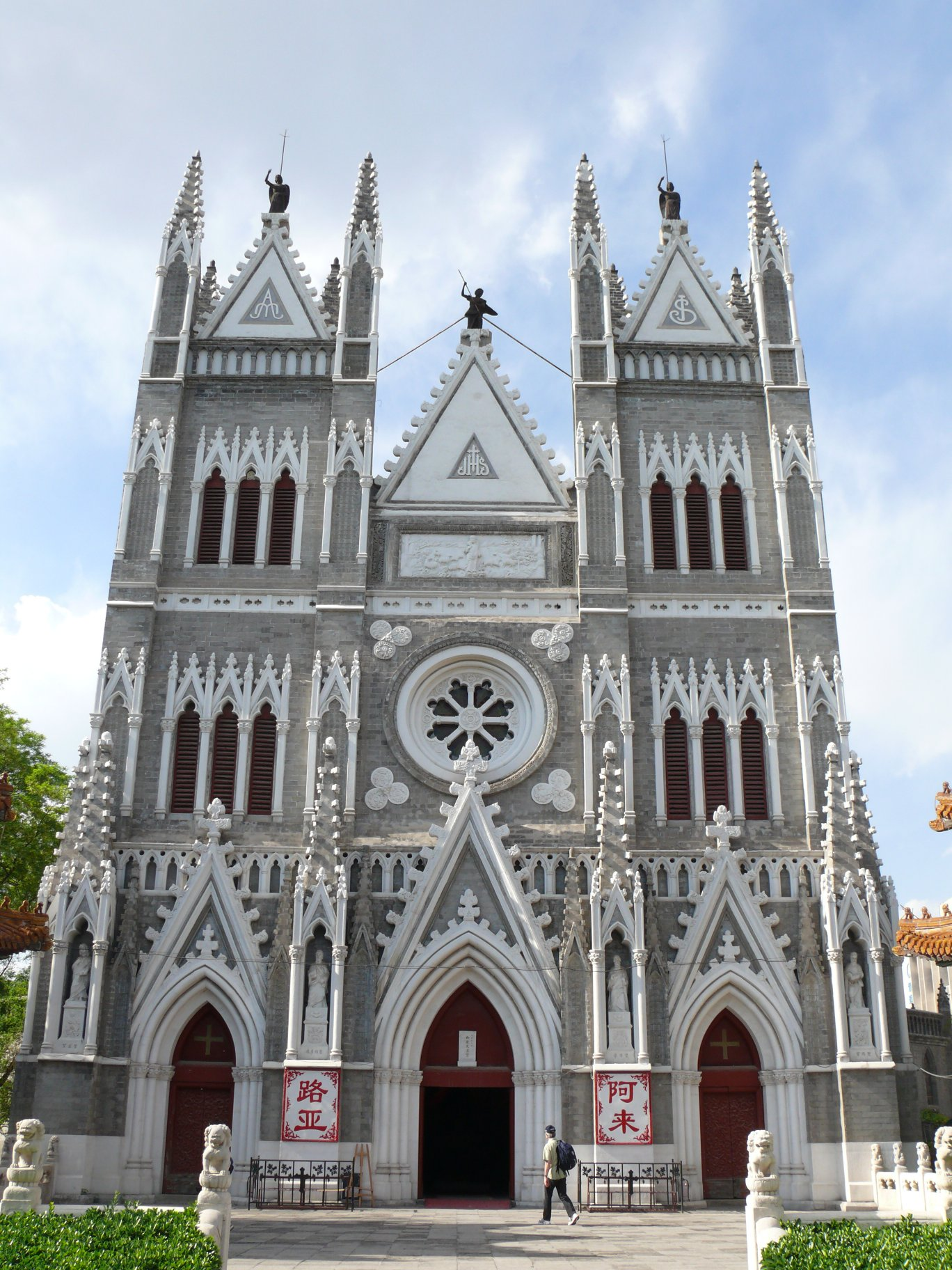 Xishiku church (Beijing, China).